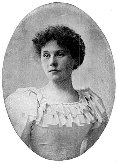 From a photograph by Alfred Ellis, London